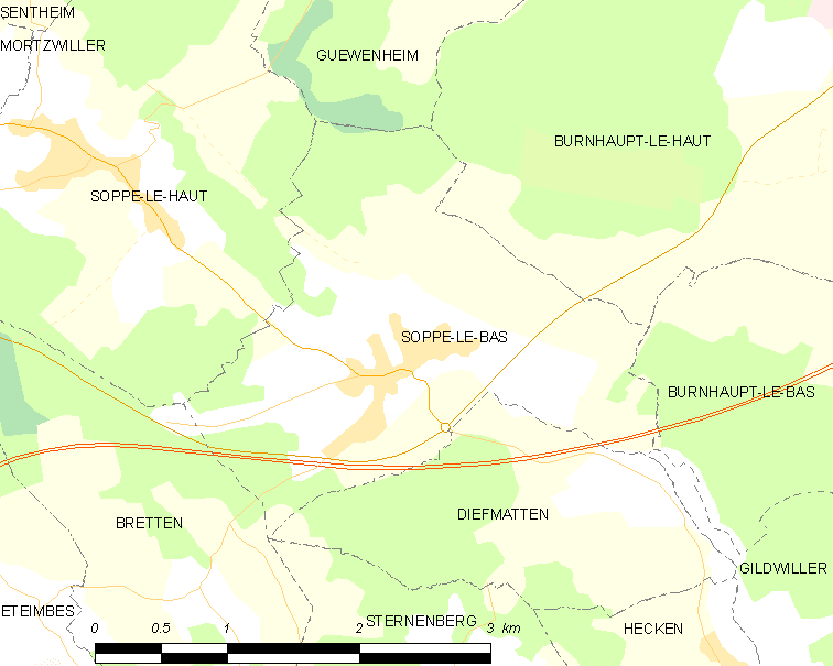 Map of French municipality